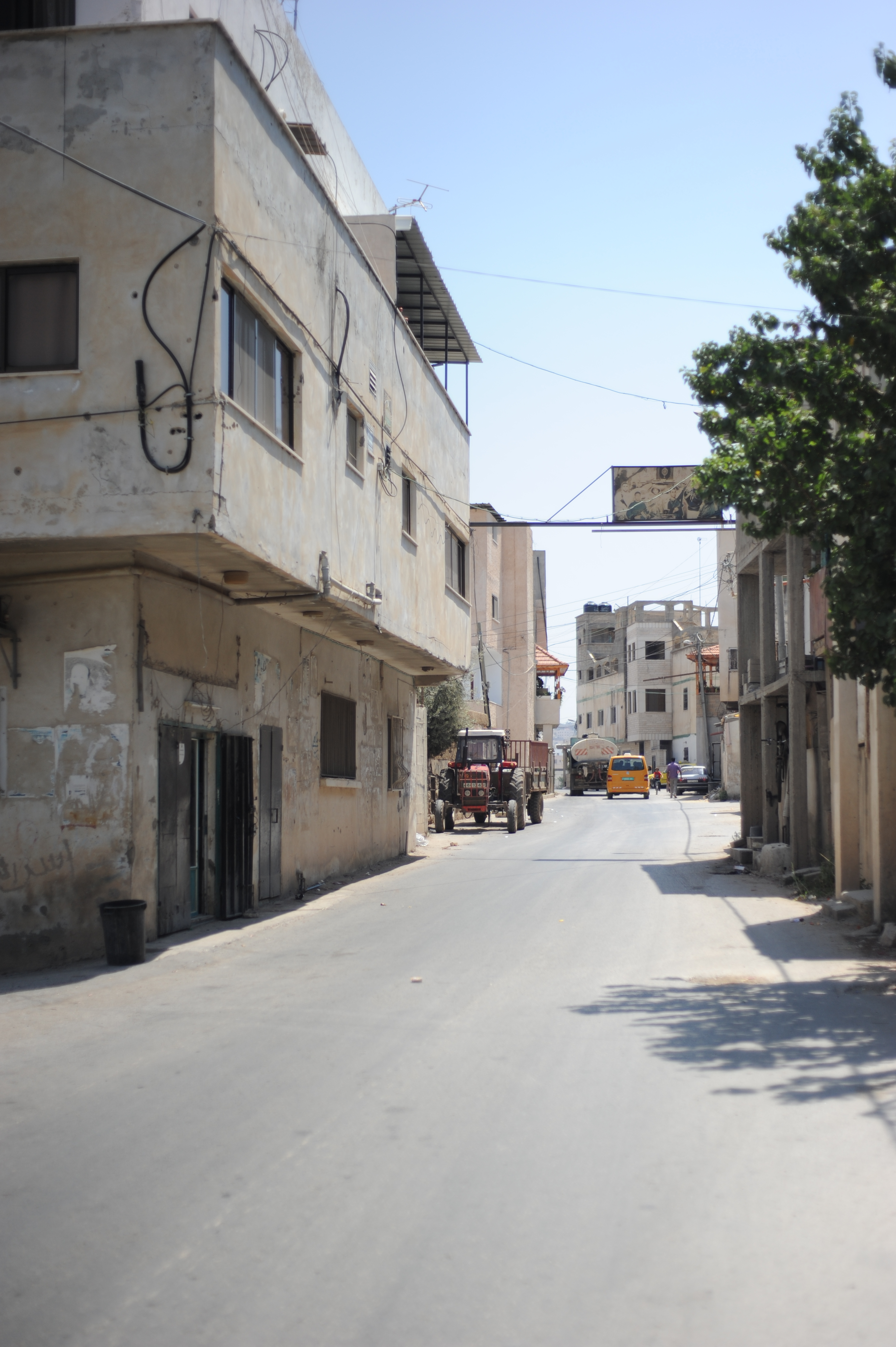 Streets of Jenin, West Bank